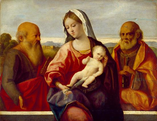 Madonna and Child with Saints Peter and Paultitle QS:P1476,en:"Madonna and Child with Saints Peter and Paul" label QS:Len,"Madonna and Child with Saints Peter and Paul"